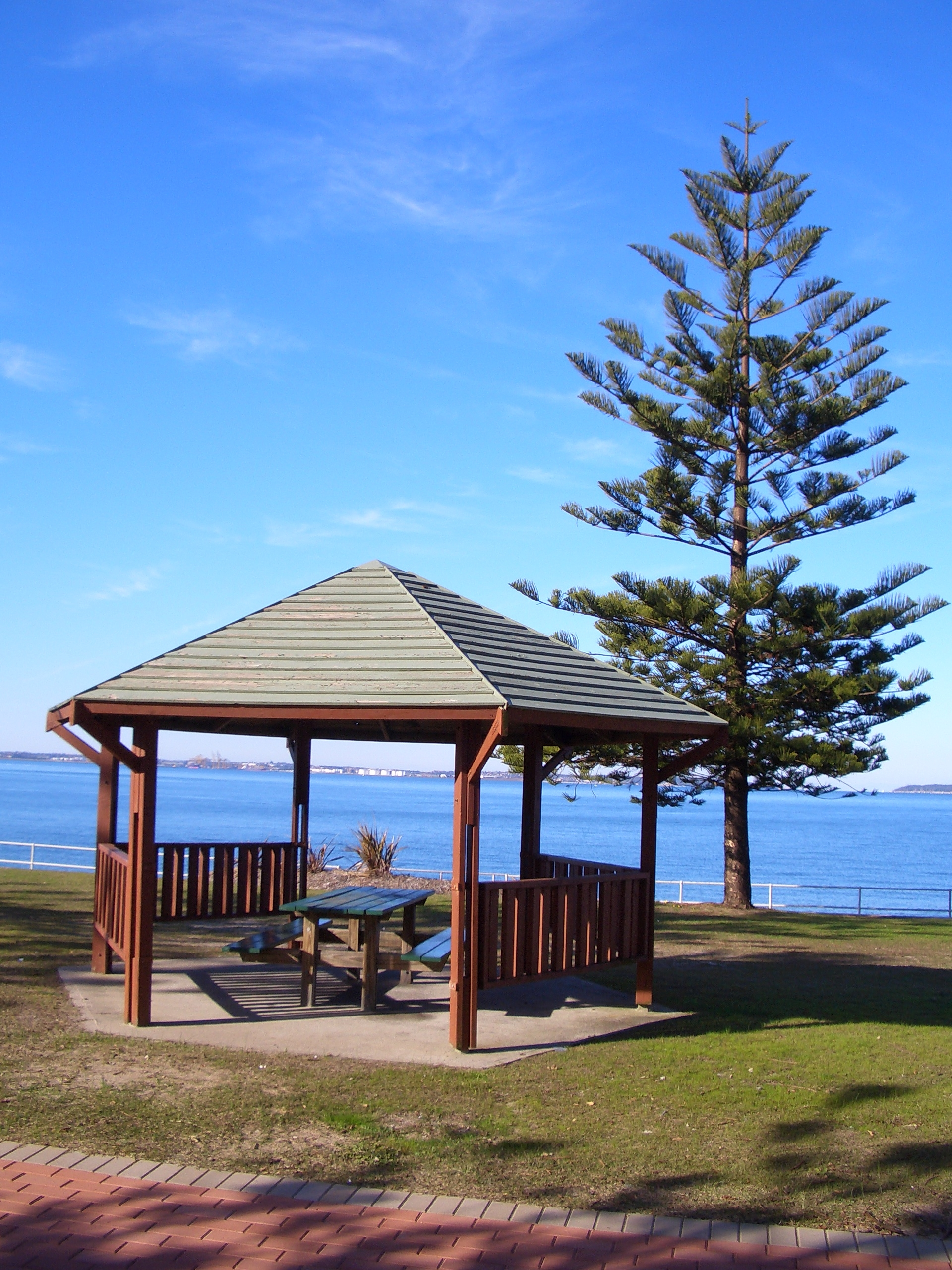 Cook Park in Ramsgate, Sydney, Australia.